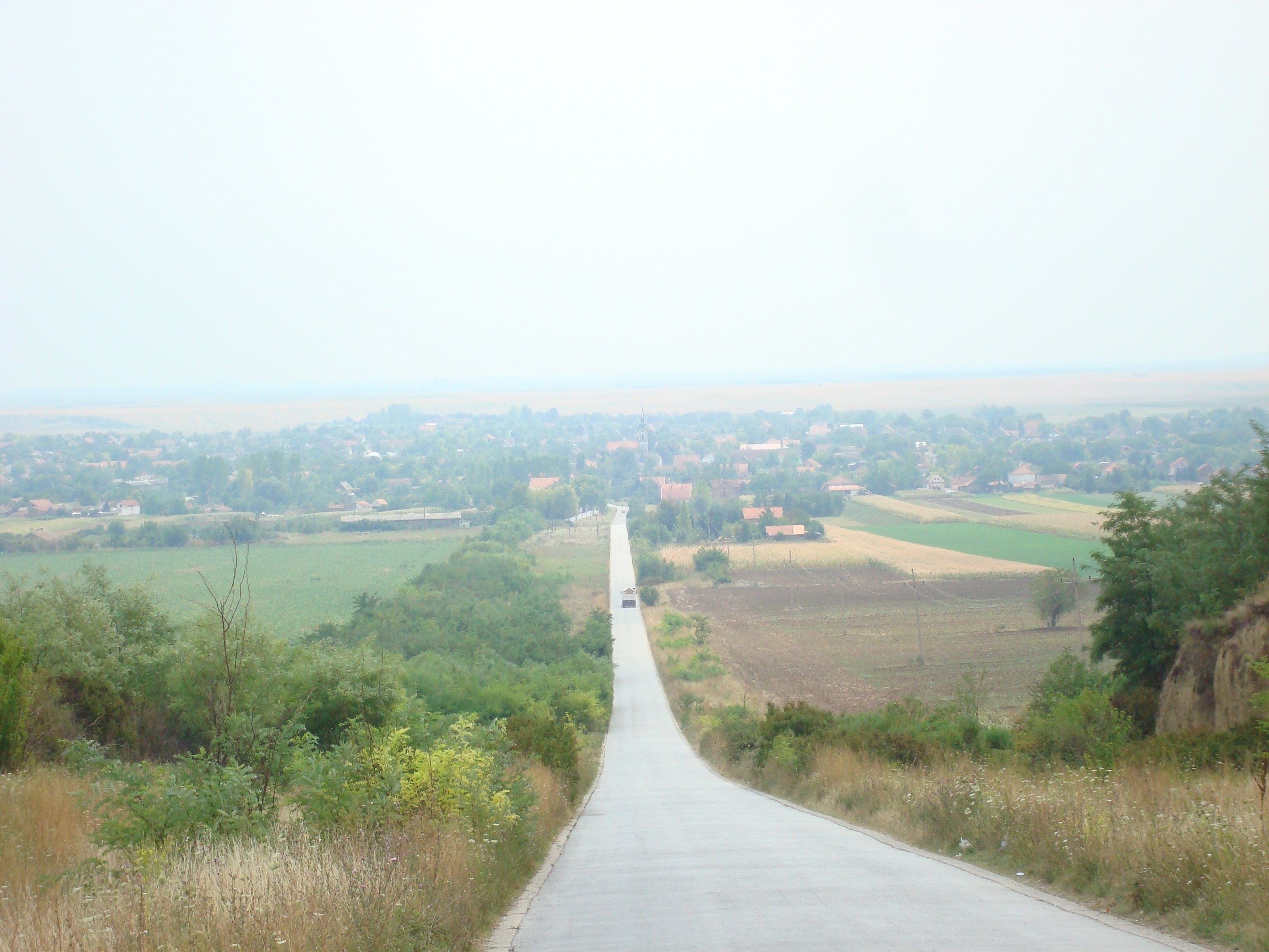 Panoramic view of Krčedin